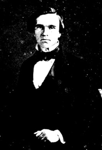 Maj. Thomas Jefferson Key (1831-1908) commanded the Helena Artillery Batter, and Arkansas Confedete Union during the American Civil War